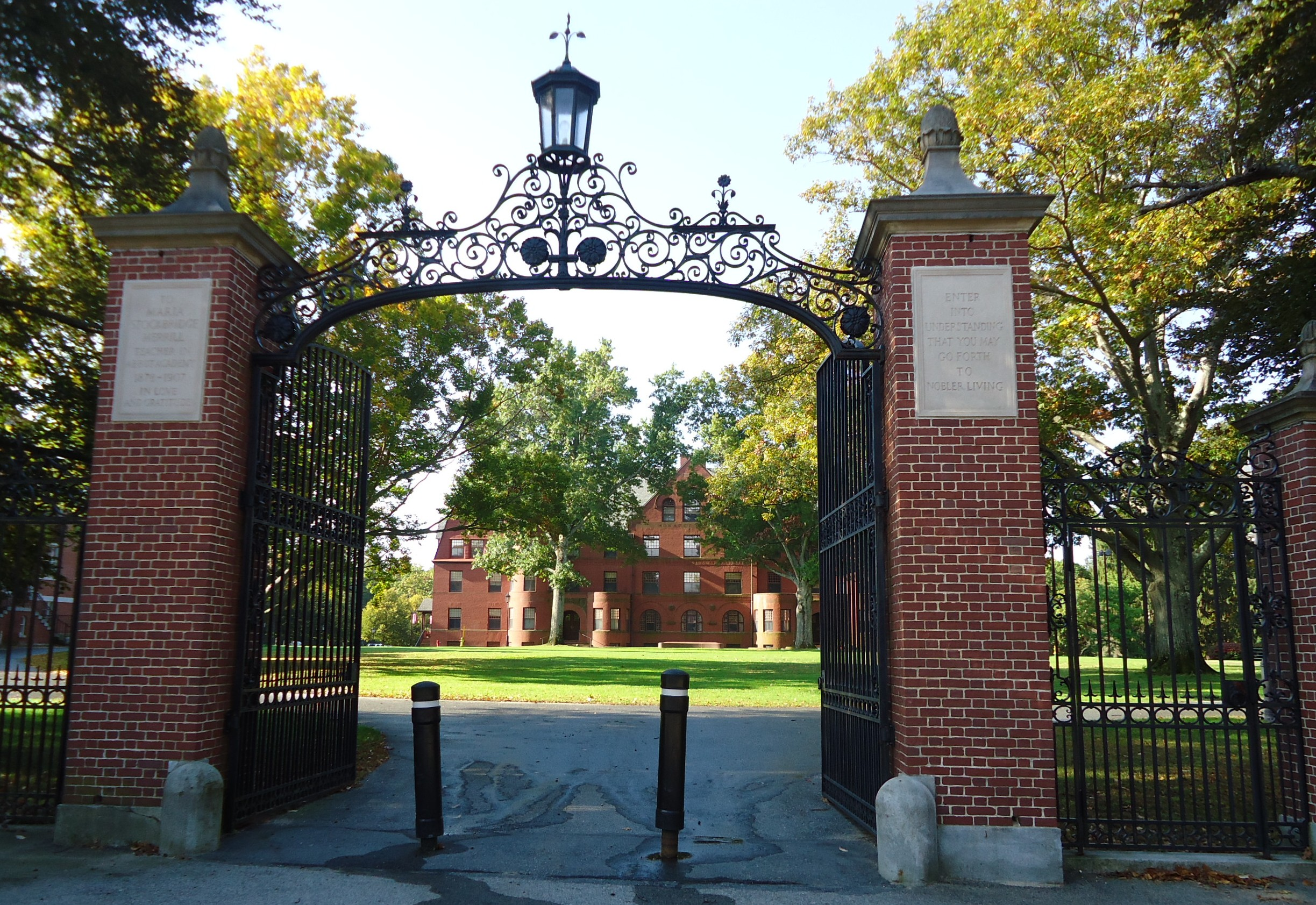 Front gate of the Abbot campus, at Phillips Academy in Andover, Massachusetts.